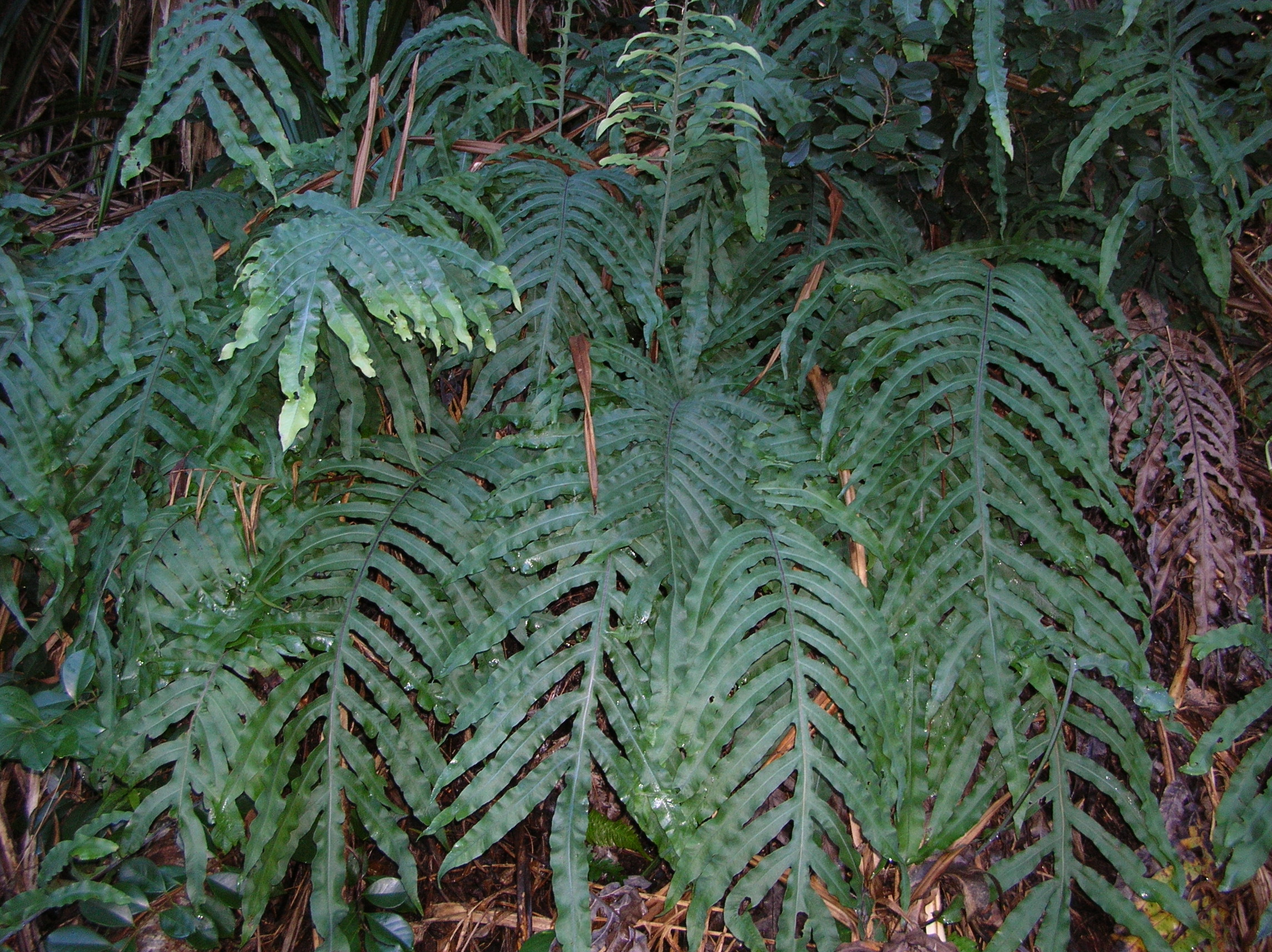 Phlebodium aureum (habit). Location: Maui, Waikamoi trail